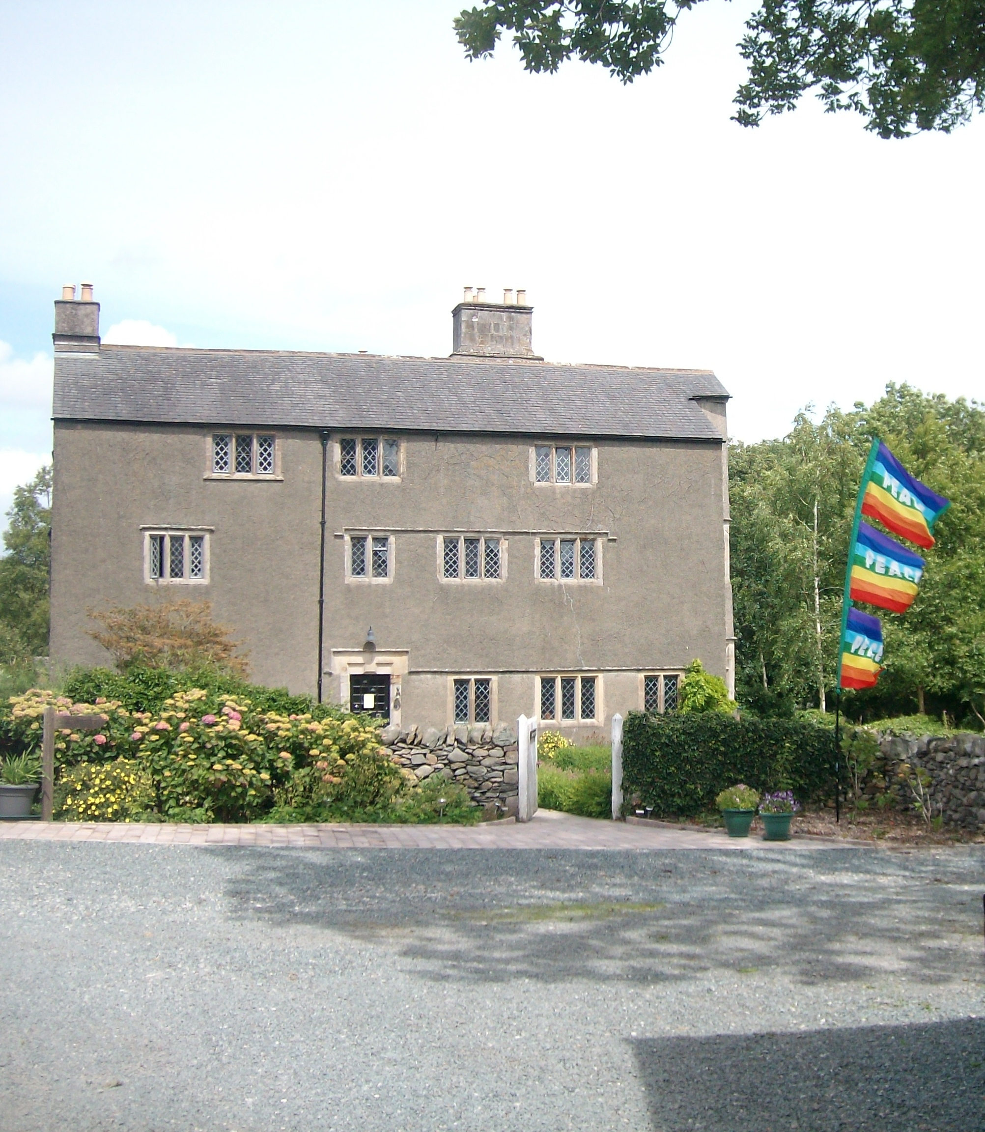 Swarthmoor Hall in July 2010